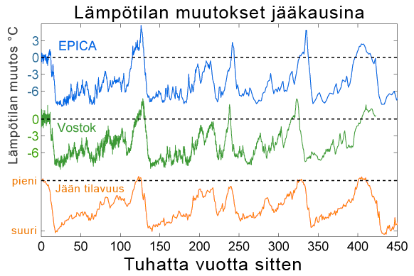 A Finnish version of a figure showing the Antarctic temperature changes during the last several glacial/interglacial cycles of the present ice age and a comparison to changes in global ice volume.